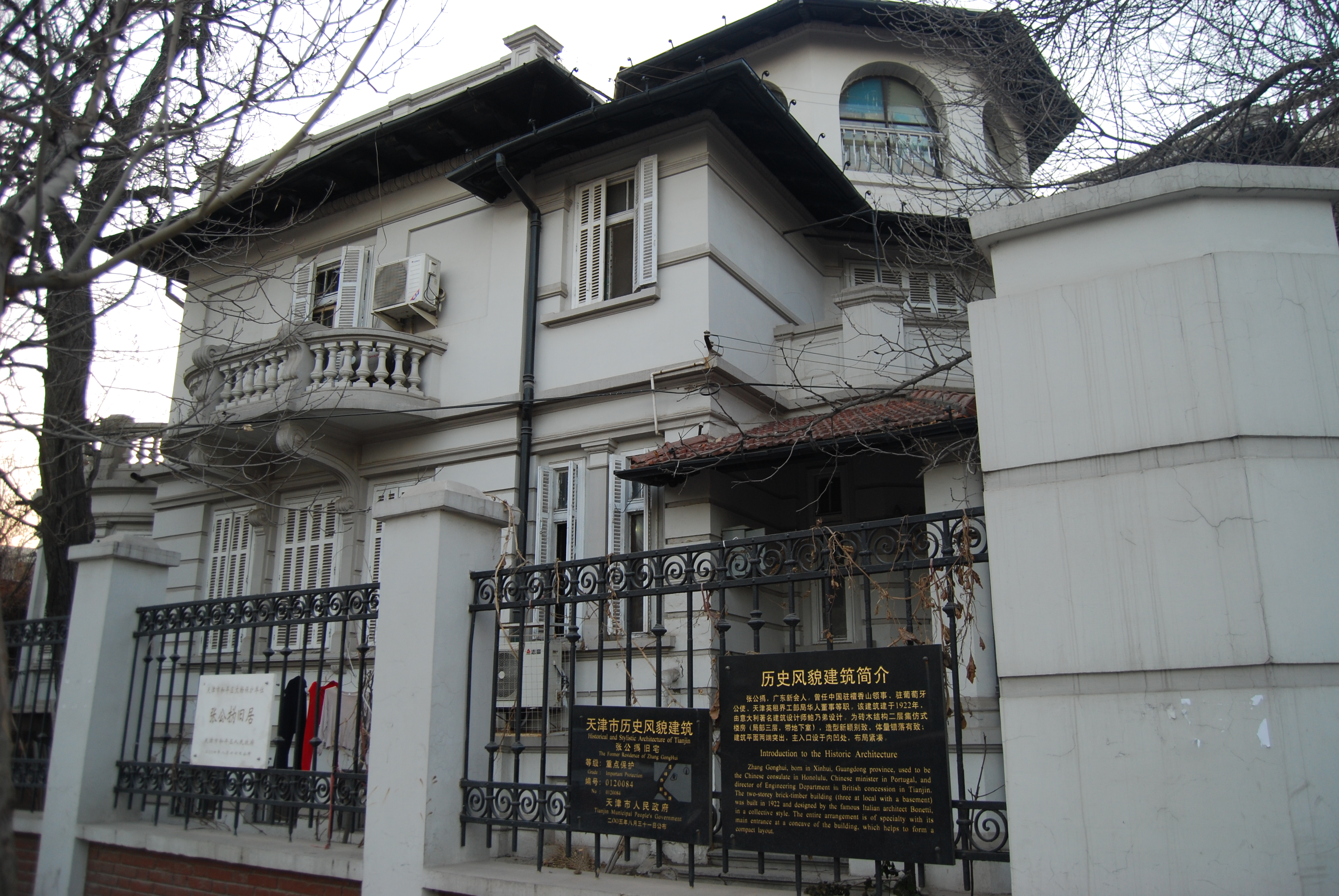 The Former Residence of Zhang GongHui in Huayuan Lu No. 2, Heping District, Tianjin